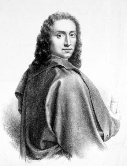 Italian composer Giovanni Battista Pergolesi (1710-1736) by Vincenzo Roscioni (18..-18..).